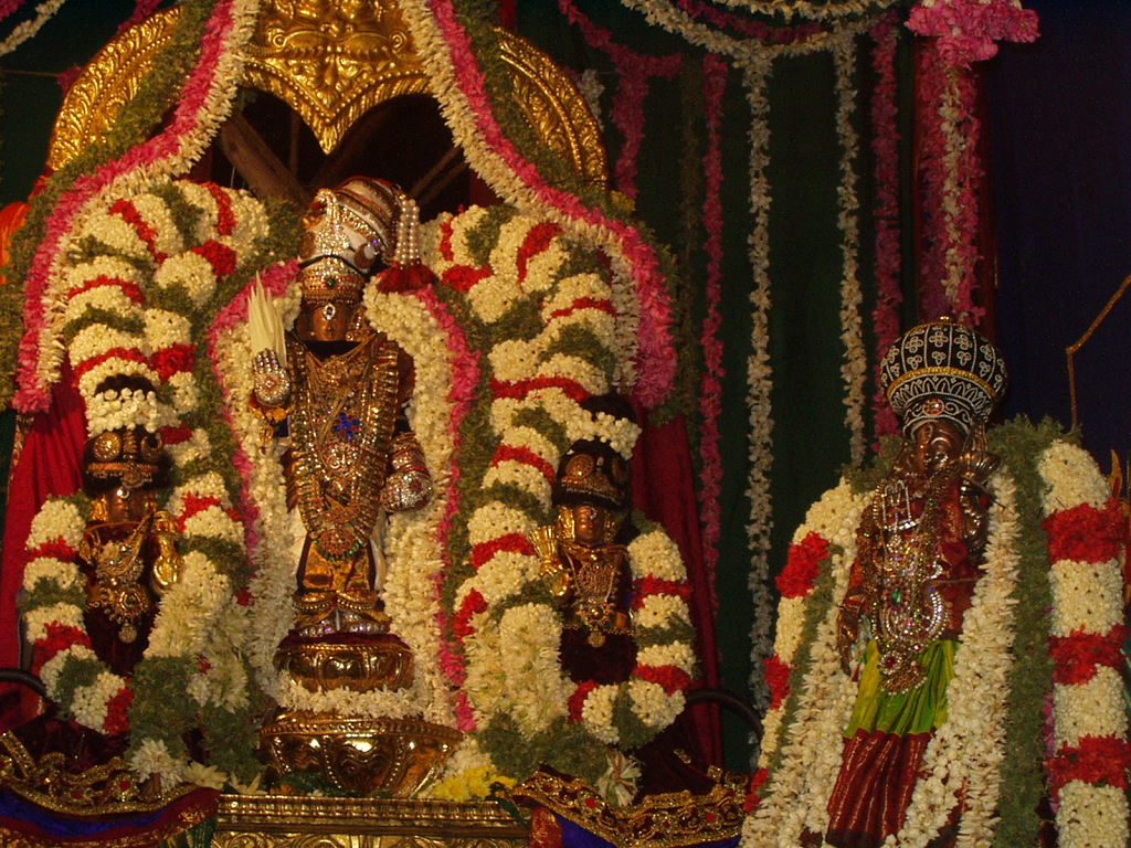 Idols covered in thick flower garlands during Thiruvizha festival in the Srinivasa Perumal Temple in Mylapore.